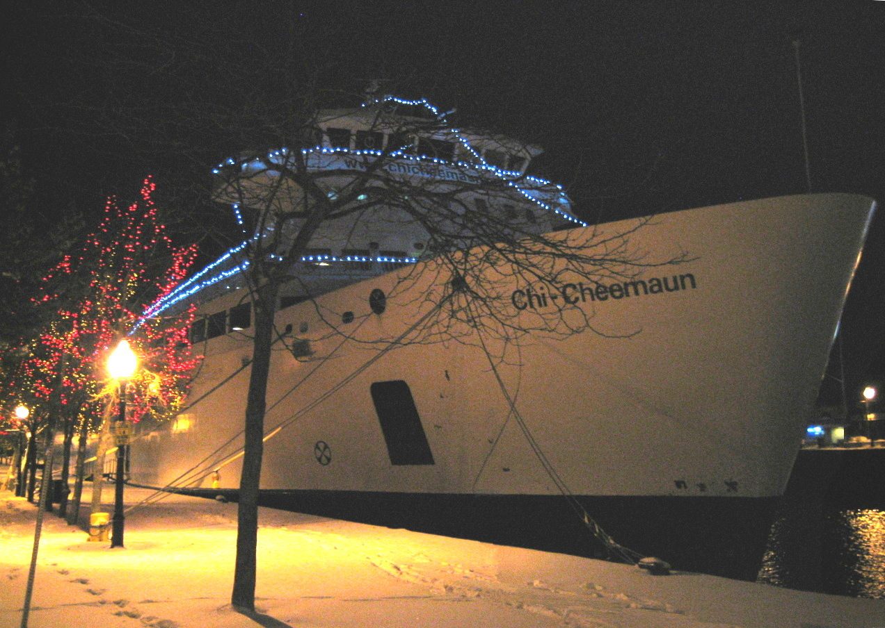 MS Chi-Cheemaun in winter at the dock in Owen Sound, Ontario, Canada